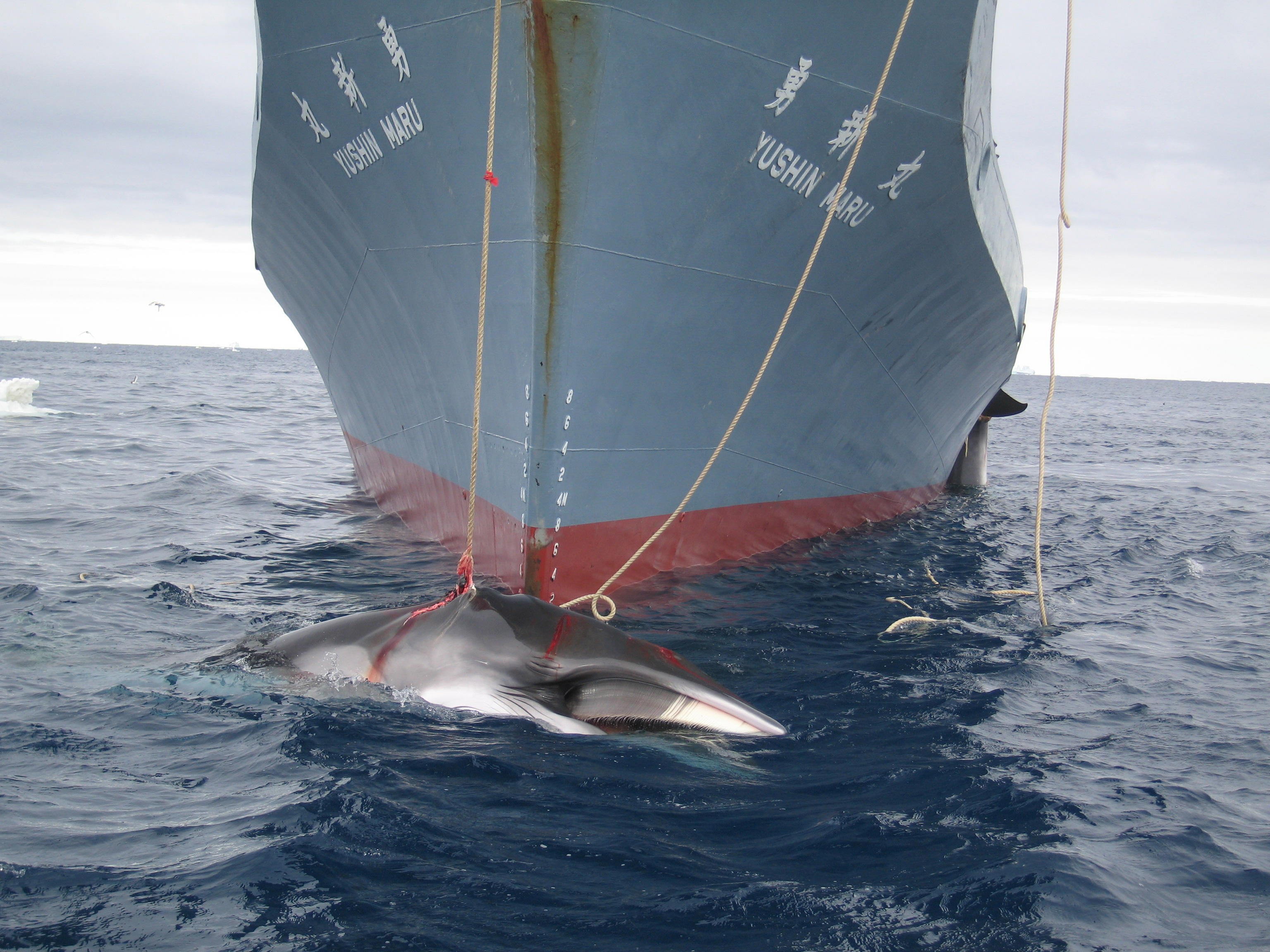 A whale is captured by the Yushin Maru, a Japanese harpoon vessel. This image was taken by Australian customs agents in 2008, under a surveillance effort to collect evidence of indiscriminate harvesting, which is contrary to Japan's claim that they are collecting the whales for the purpose of scientific research. In 2010, Australia filed a lawsuit in the International Court of Justice hoping to halt Japanese whaling; this photograph will undoubtedly play a key role in that pending case.